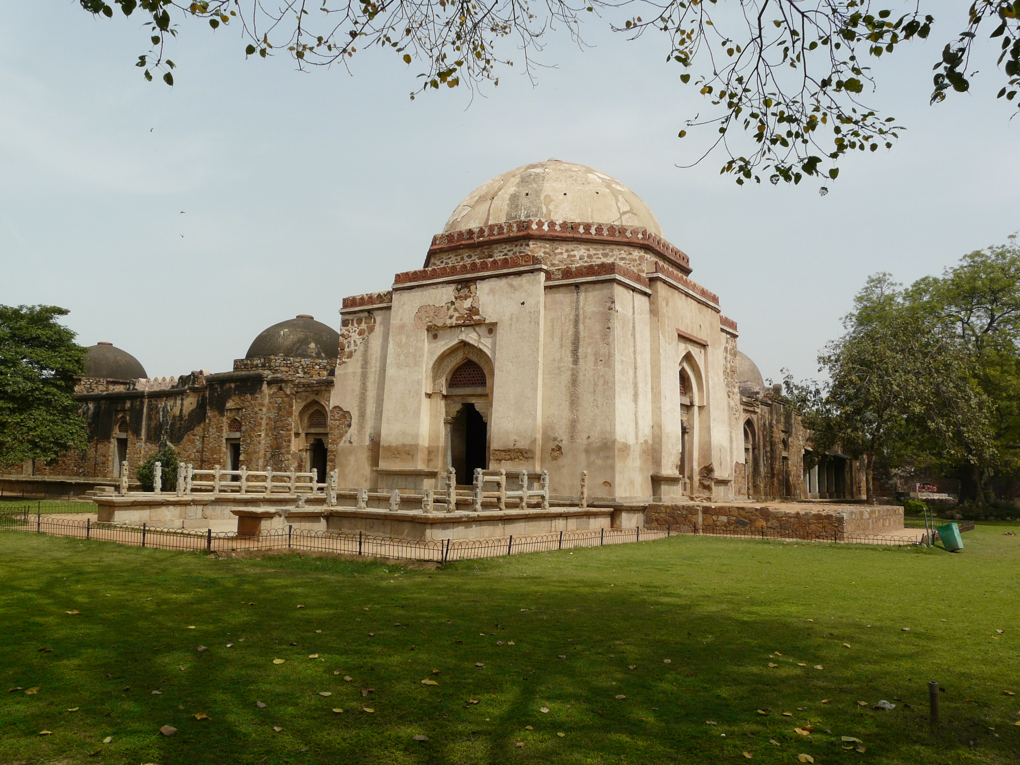 Firoz Shah's tomb Tomb of Feroz Shah Tughlaq, Hauz Khas Complex, Delhi